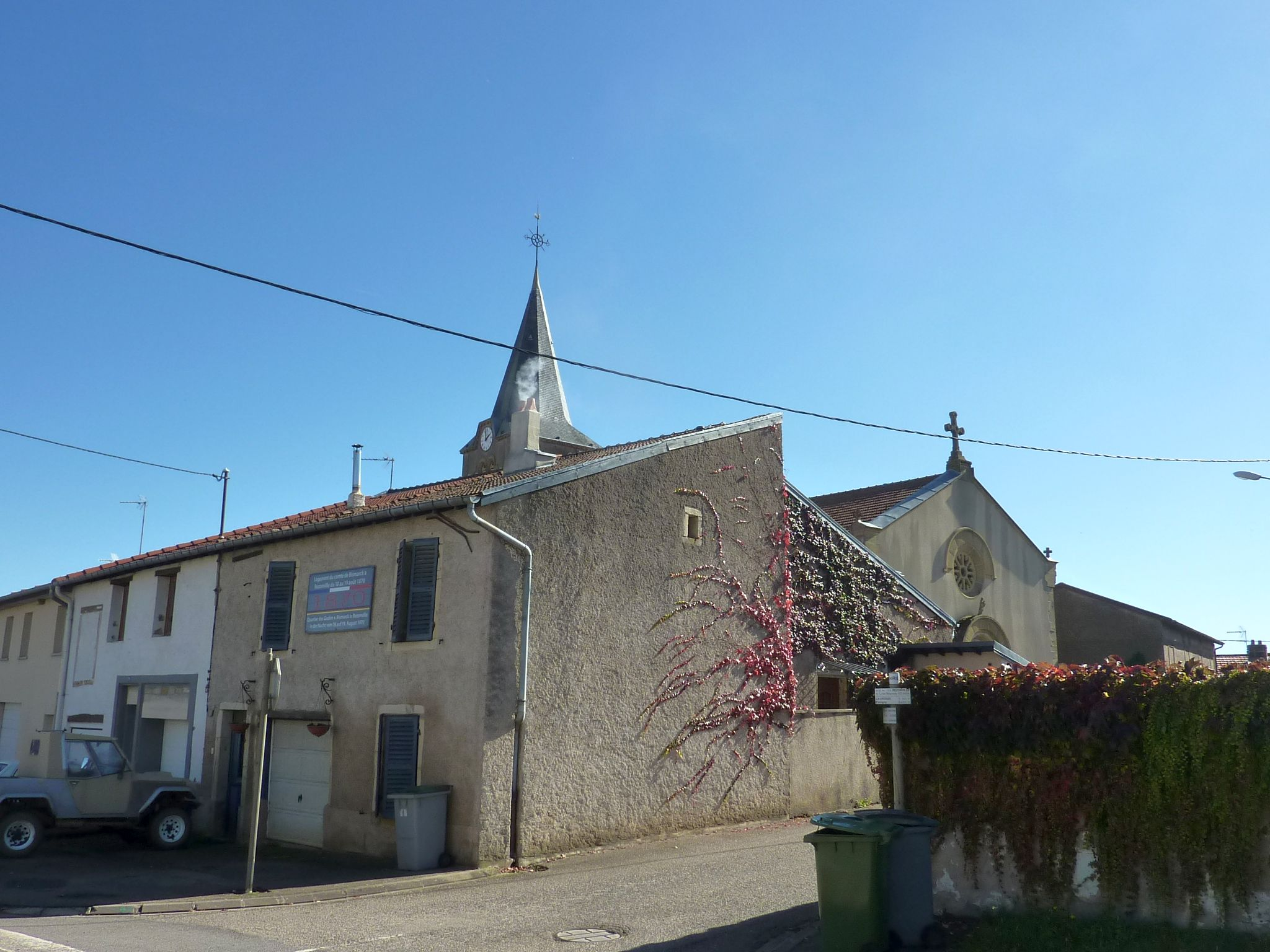 Quarters of Bismarck, Rezonville